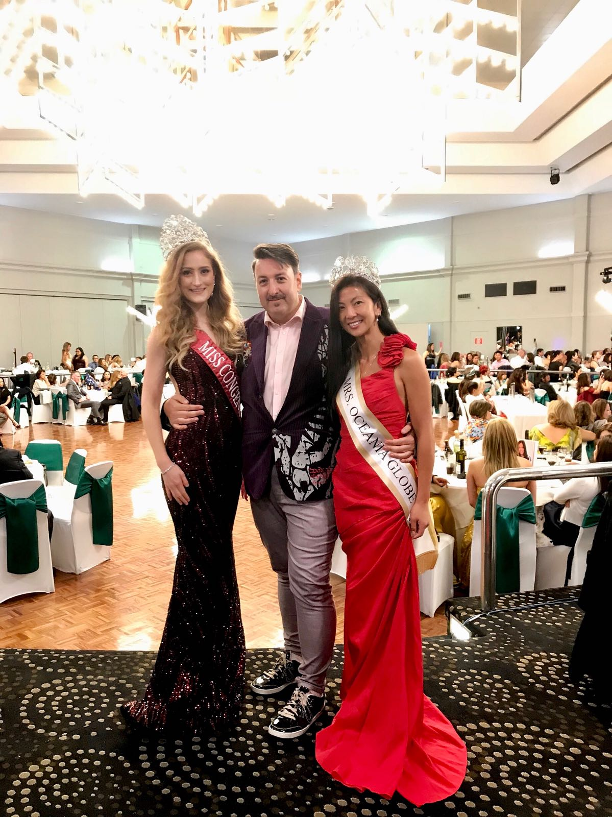 Louisa Brown Miss Congeniality